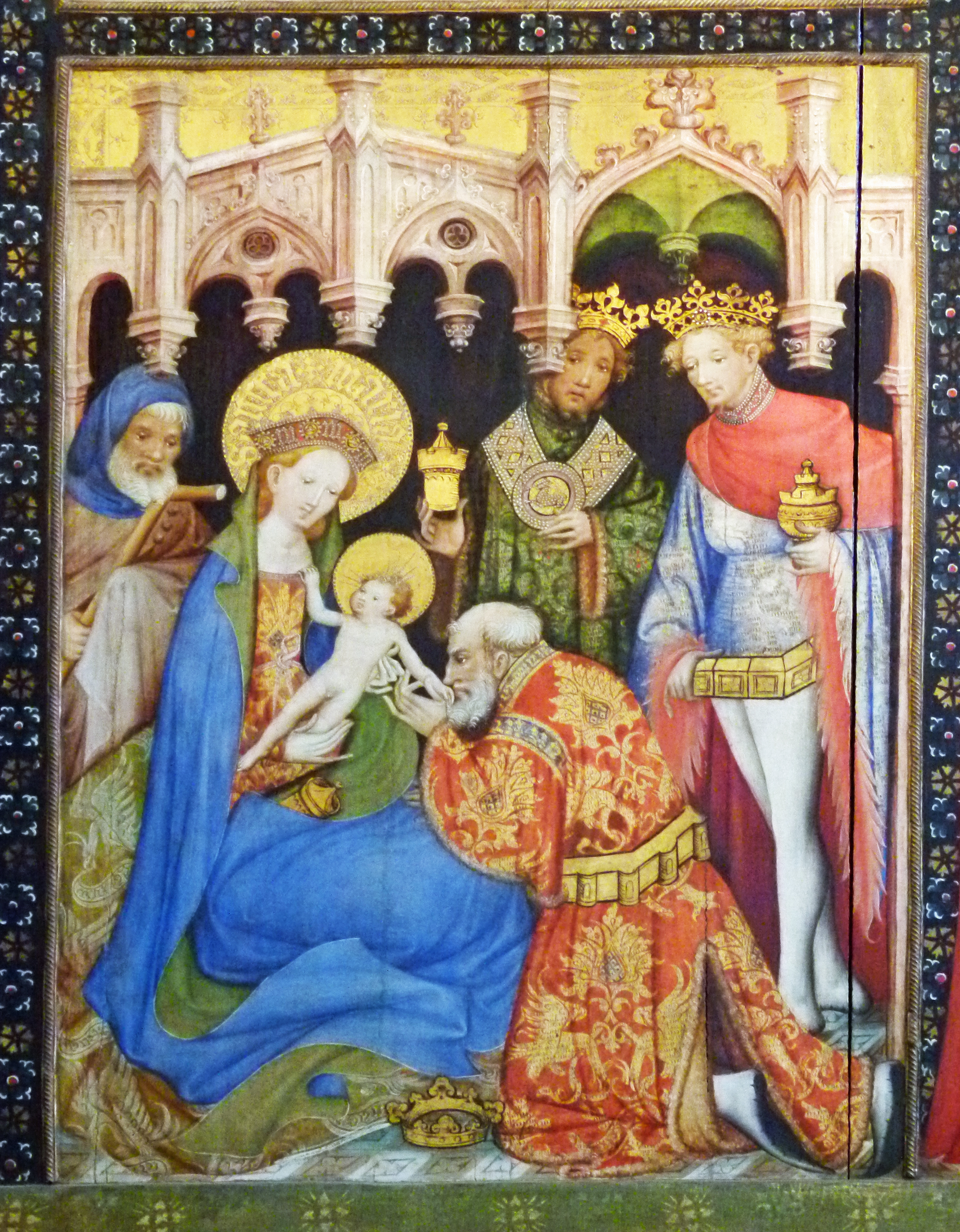 Adoration of the Magi, panel from the Wildunger Altarpiece of Konrad von Soest